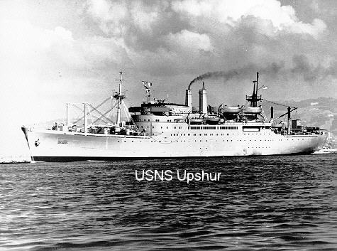 USNS Upshur (T-AP-198) underway out of San Francisco, Calif., 1968